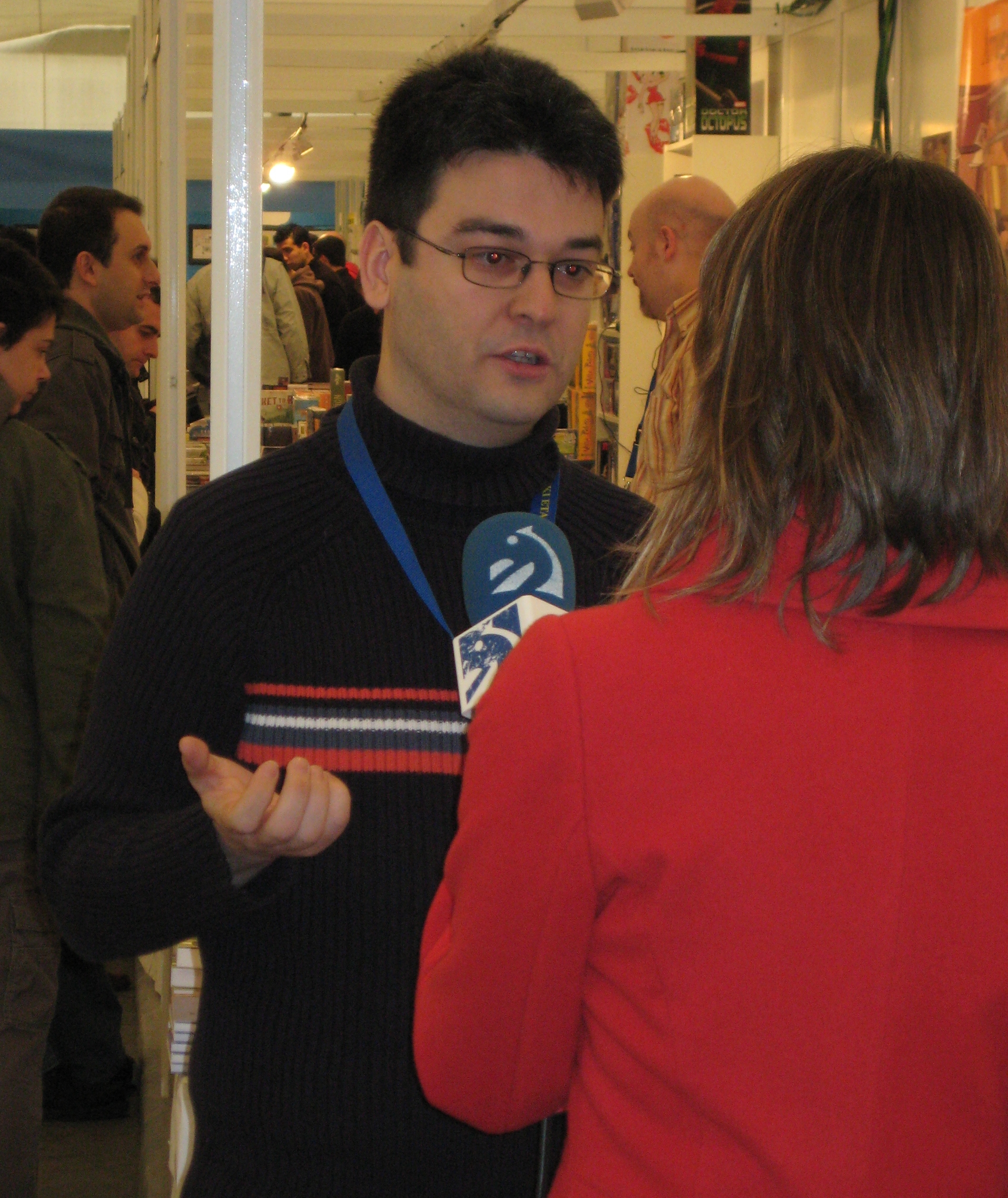 Fernando Tarancón, publisher of Astiberri Ediciones, interviewed by Euskal Telebista, in Getxo Comic Con 2008.